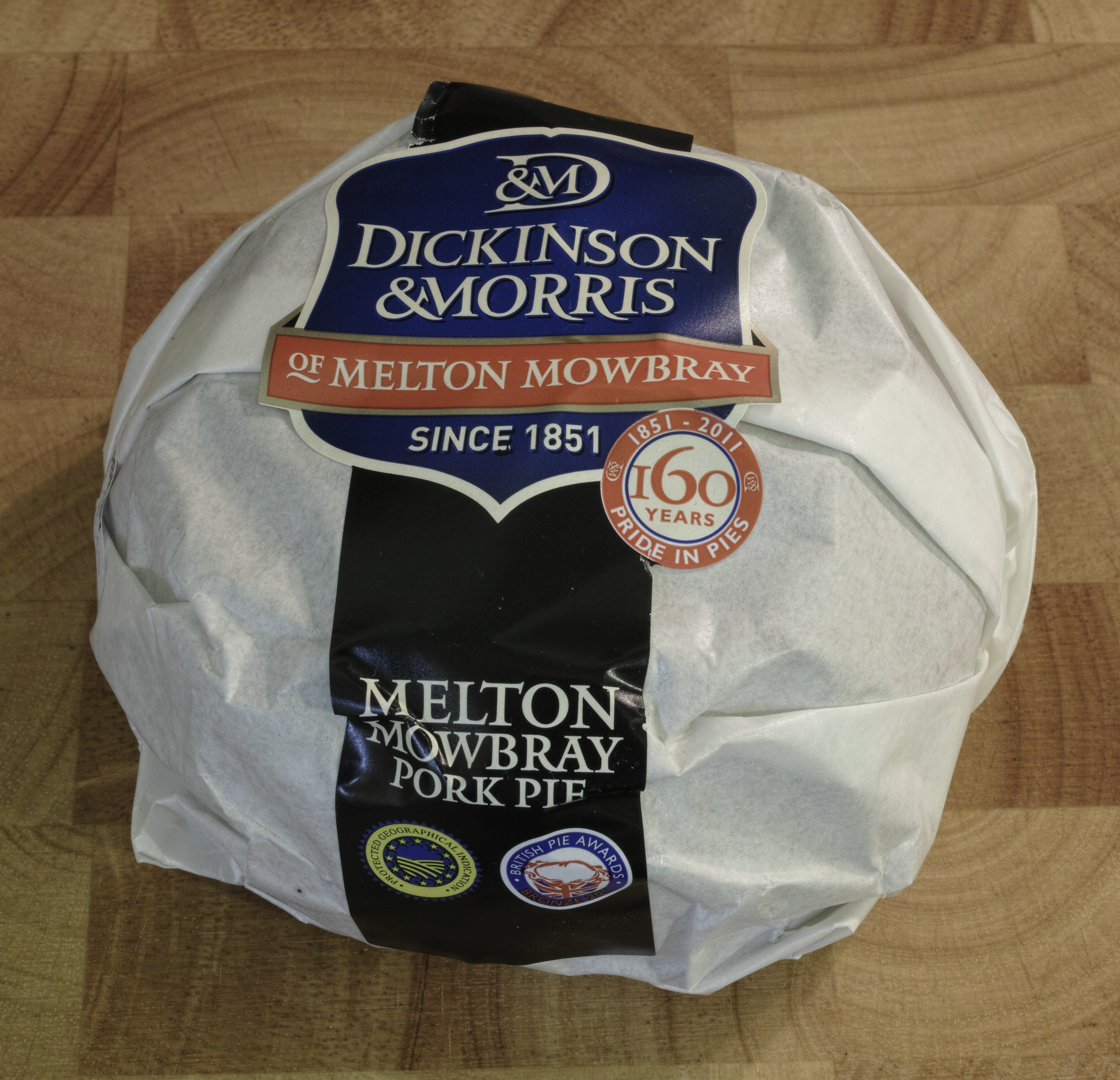 A Melton Mowbray pork pie, made by Dickinson & Morris, in wrapper.